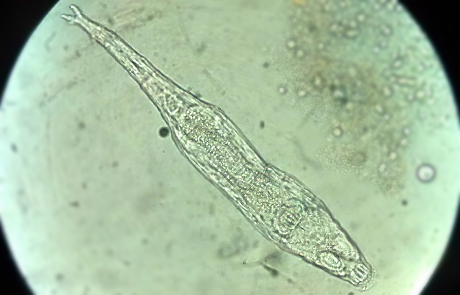 Philodina sp. (Rotifera).